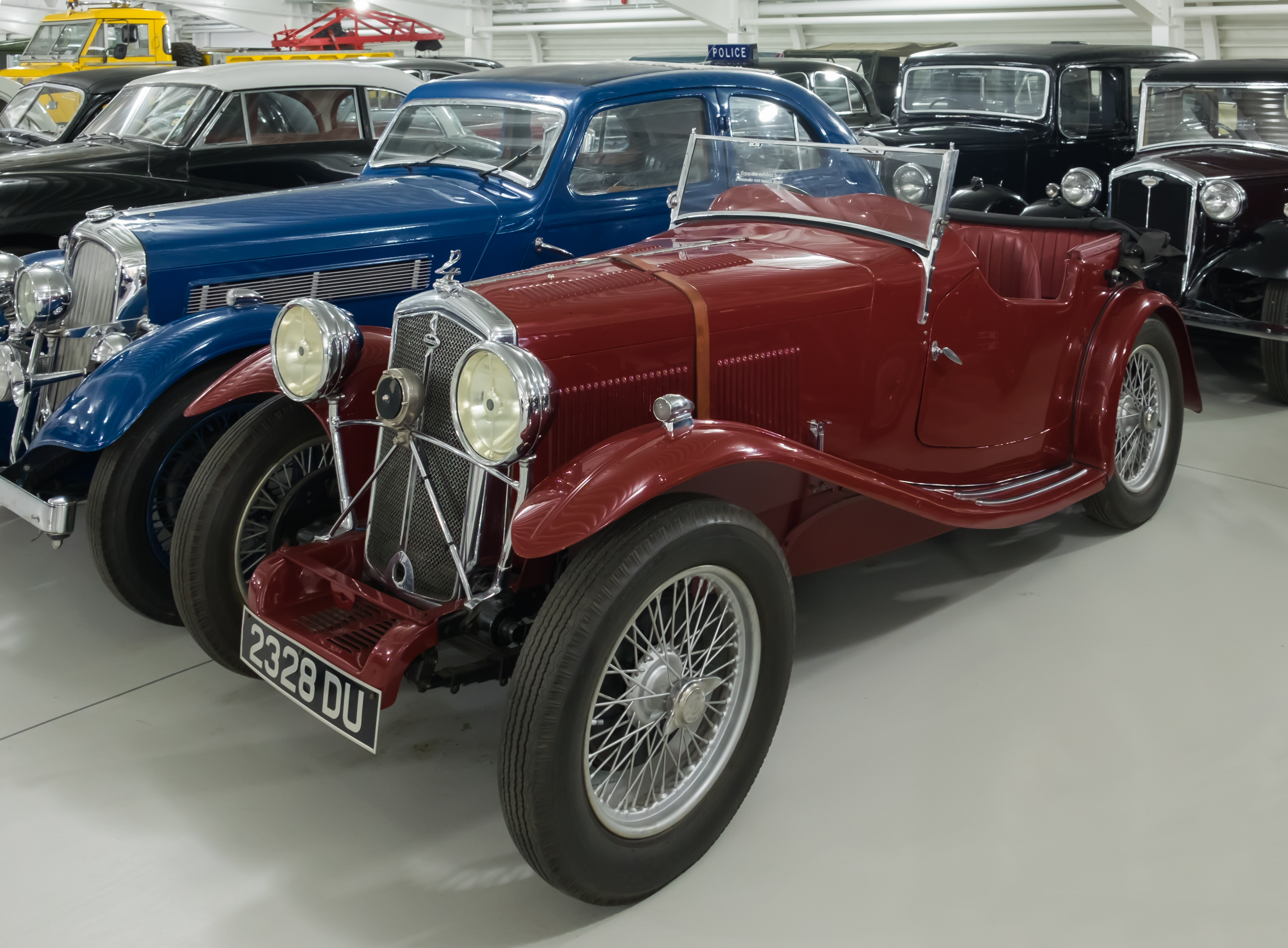 A 1932 Wolseley Hornet EW special. This car, with registration mark 2328 DU, is now kept at the British Motor Museum, Gaydon, UK.